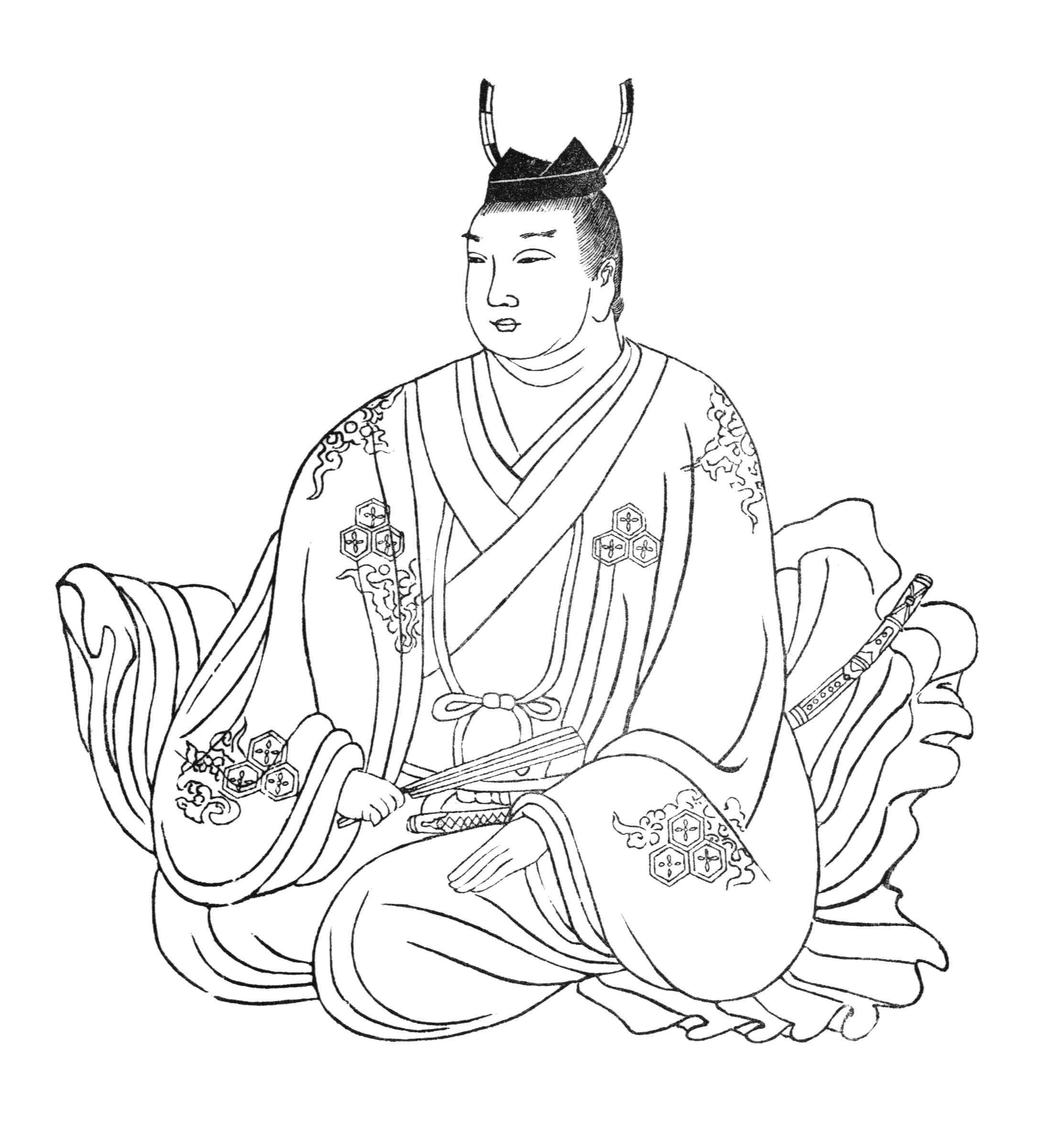 Portrait of Naoe Kageaki